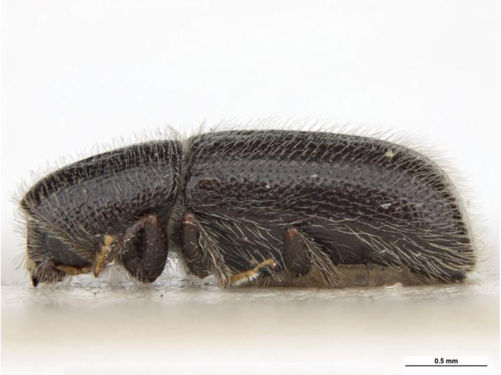 Bark beetle (Thamnurgus varipes) lateral